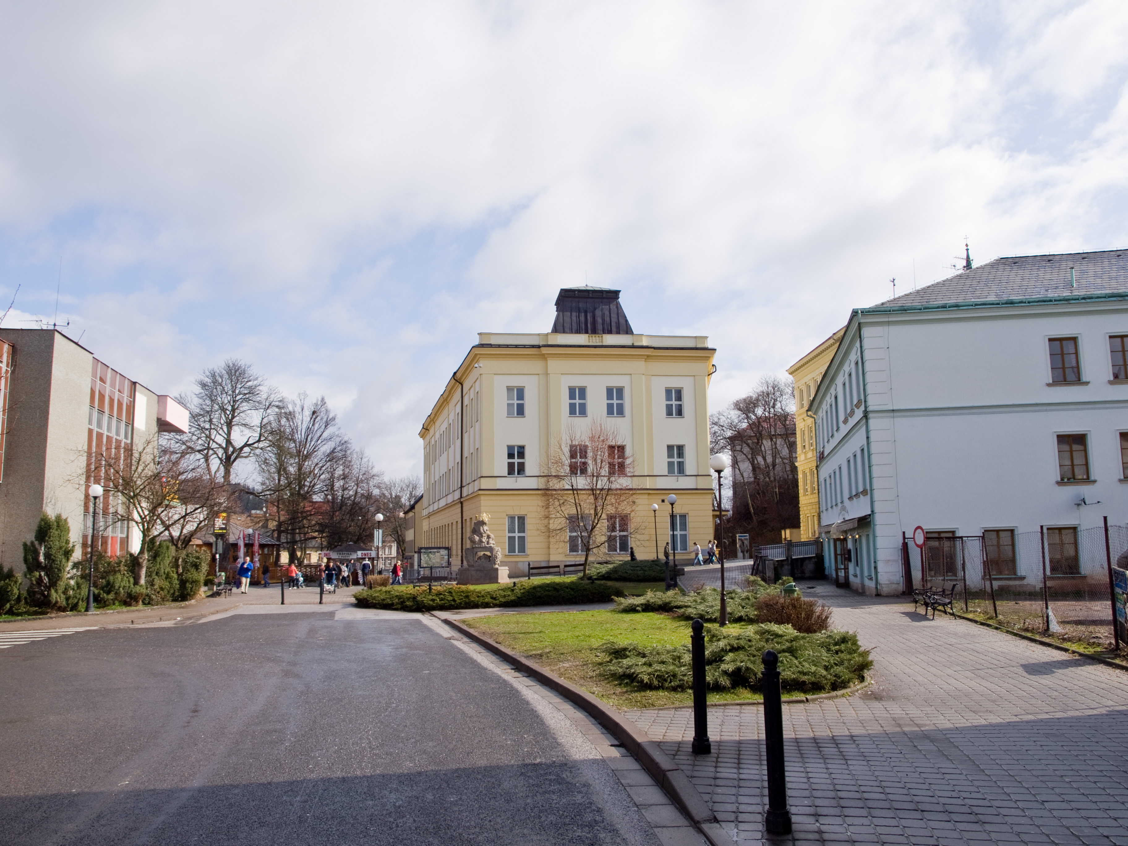 Svatojánské square, Trutnov, Hradec Králové Region, Czech Republic